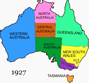 This was created by Astrokey44 for Wikipedia and he suggested I use it it on the evolution of territory of Australia. Based on Chuq's GNU maps.